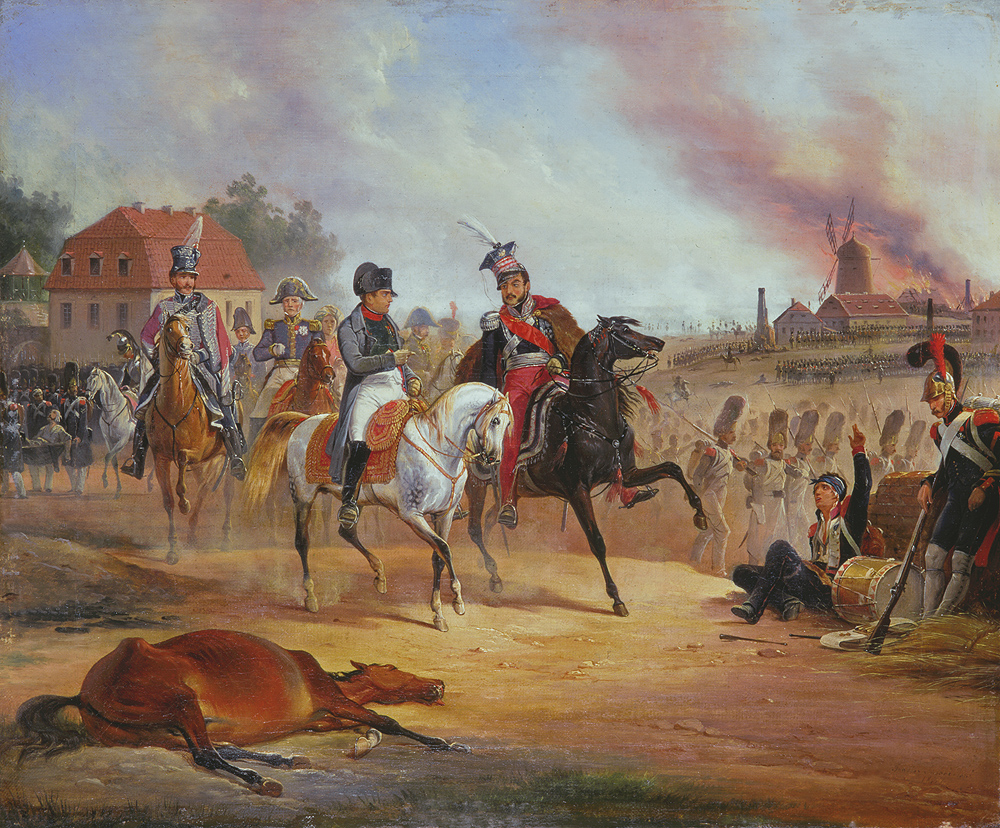 Napoleon and Józef Antoni Poniatowski at the Battle of Leipzig